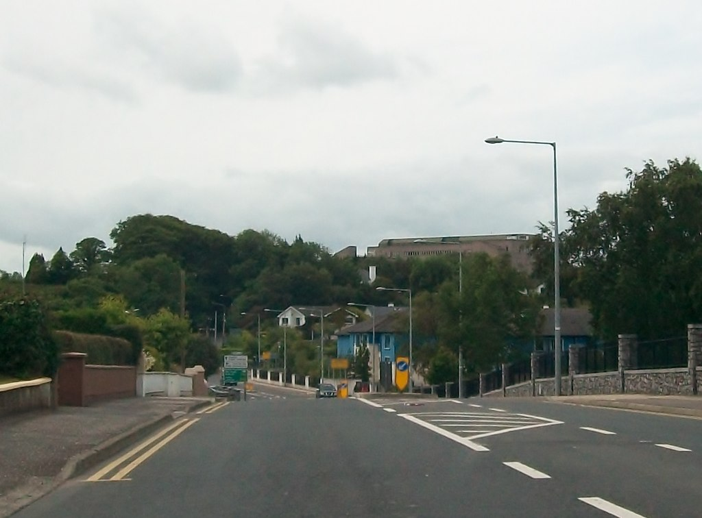 Barroe Road (N16) in the suburbs of Sligo